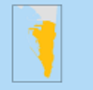 Results of the European Union membership referendum, 2016 in Gibraltar. Remain Leave